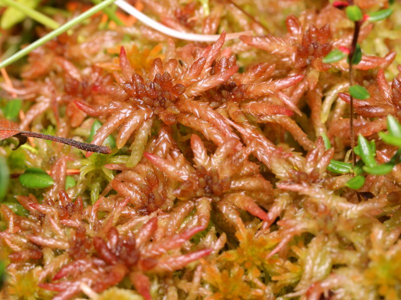 Mittleres Torfmoos (Sphagnum magellanicum)